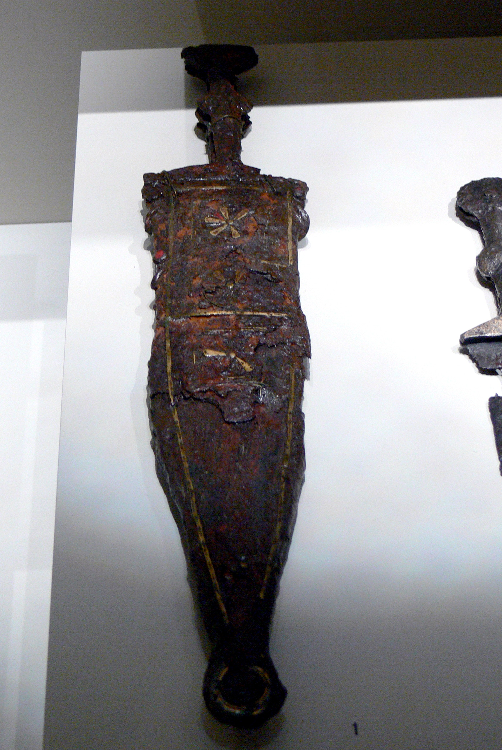 German National Museum ( Nuremberg / Germany ). Ancient Roman iron dagger ( pugio ) and sheath with brass and enamel inlay decoration. 1st century AD, from Mainz.